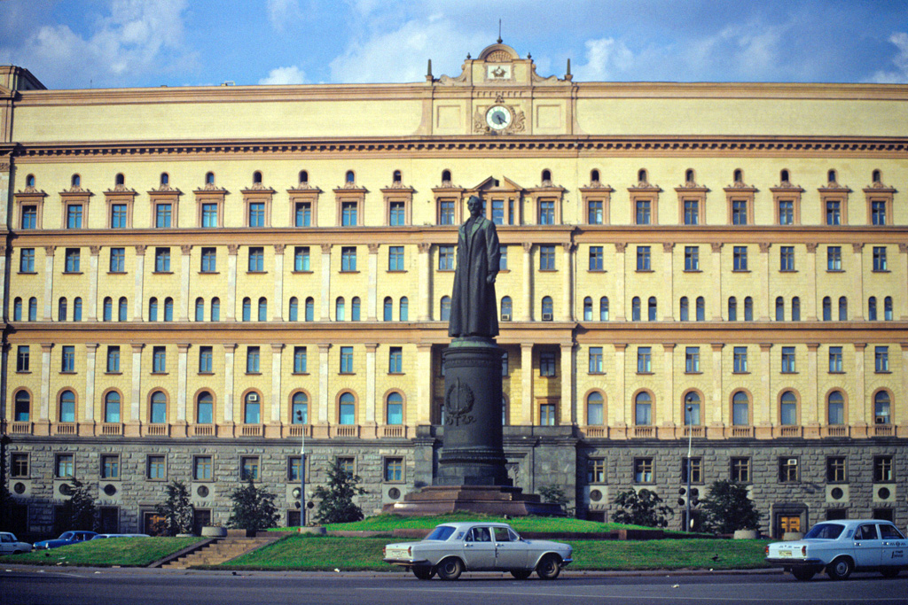 “Lubyanka Square in Moscow”. Lubyanka Square (Dzerzhinsky Square in 1926 through 1990). In the center -- the Felix Dzerzhinsky monument (sculptor Vuchetich)/. In the background -- the U.S.S.R. State Security Committee building.